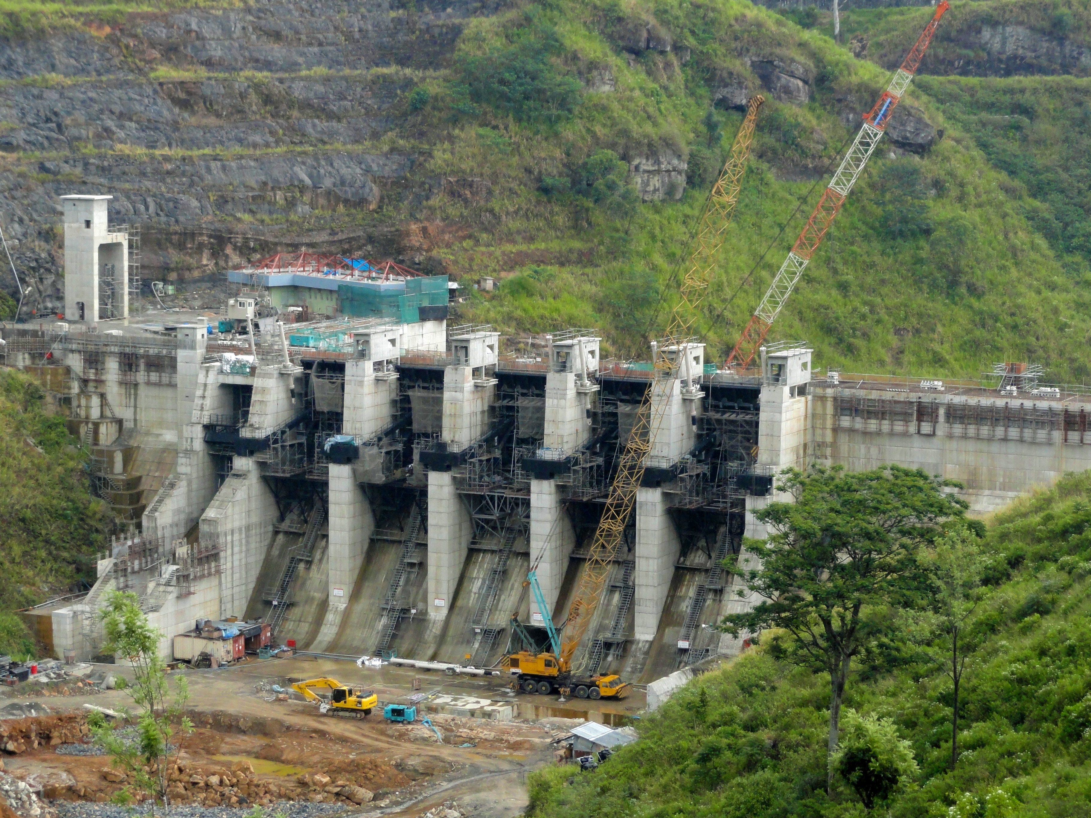 The Upper Kotmale Dam in Talawakele, Sri Lanka.